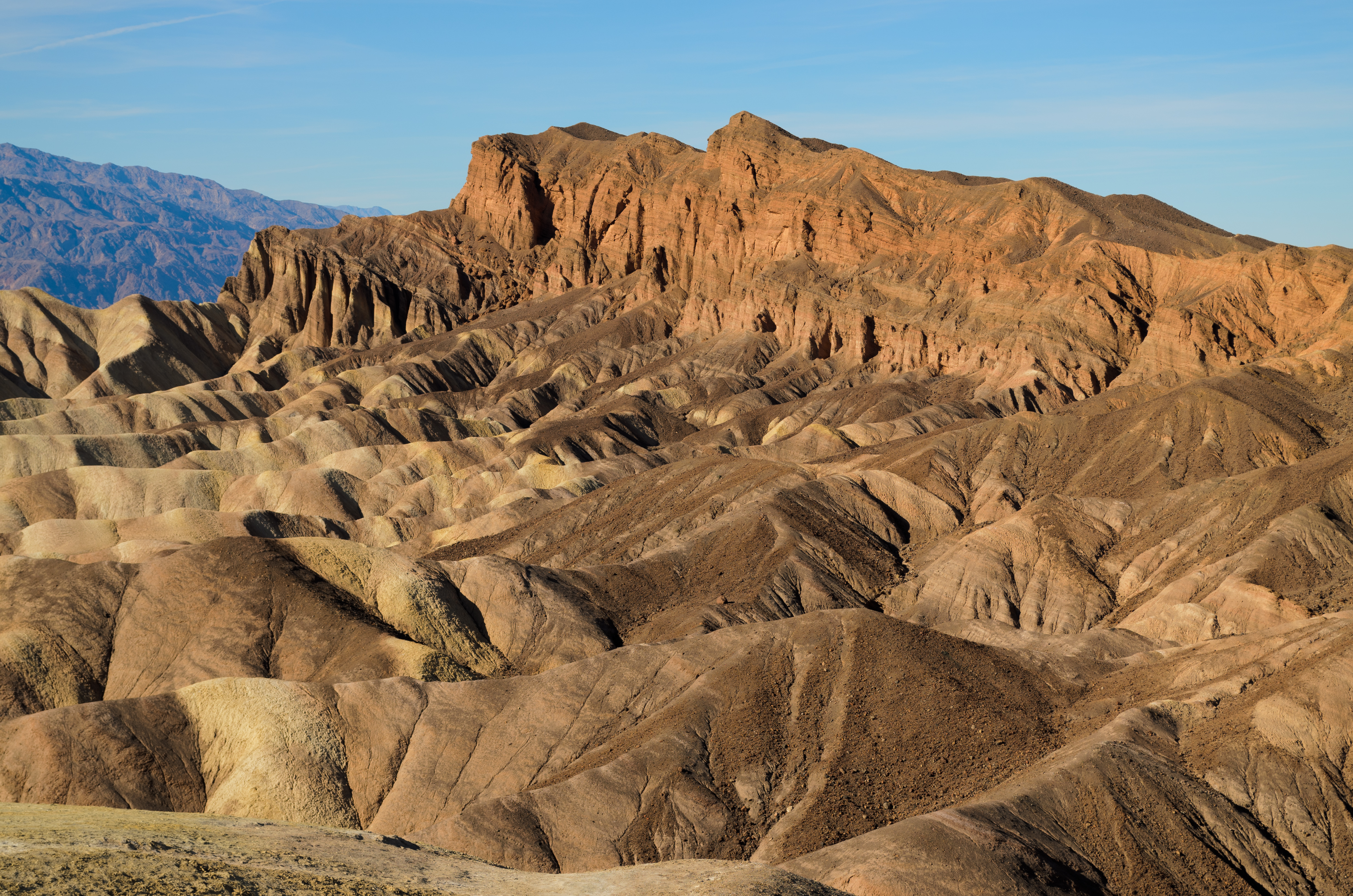 Red Cathedral, Zabriskie Point, Death Valley National Park, California.